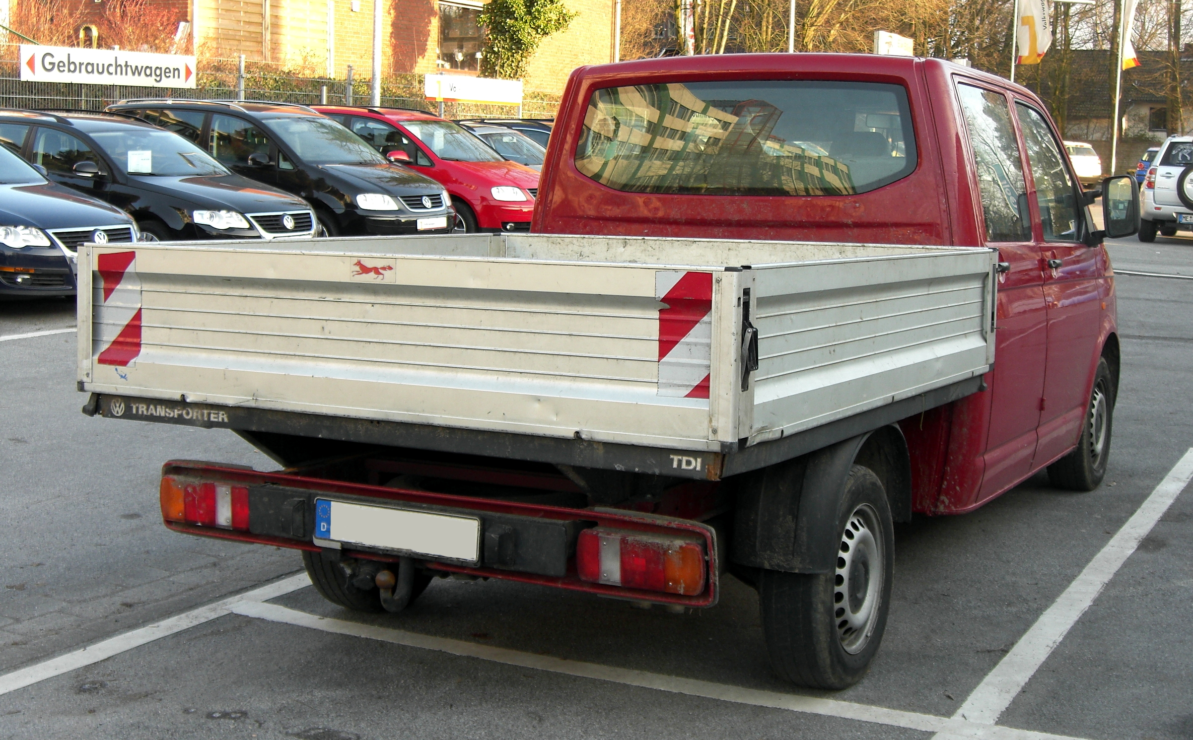 Volkswagen T5 TDI pick-up in Germany.